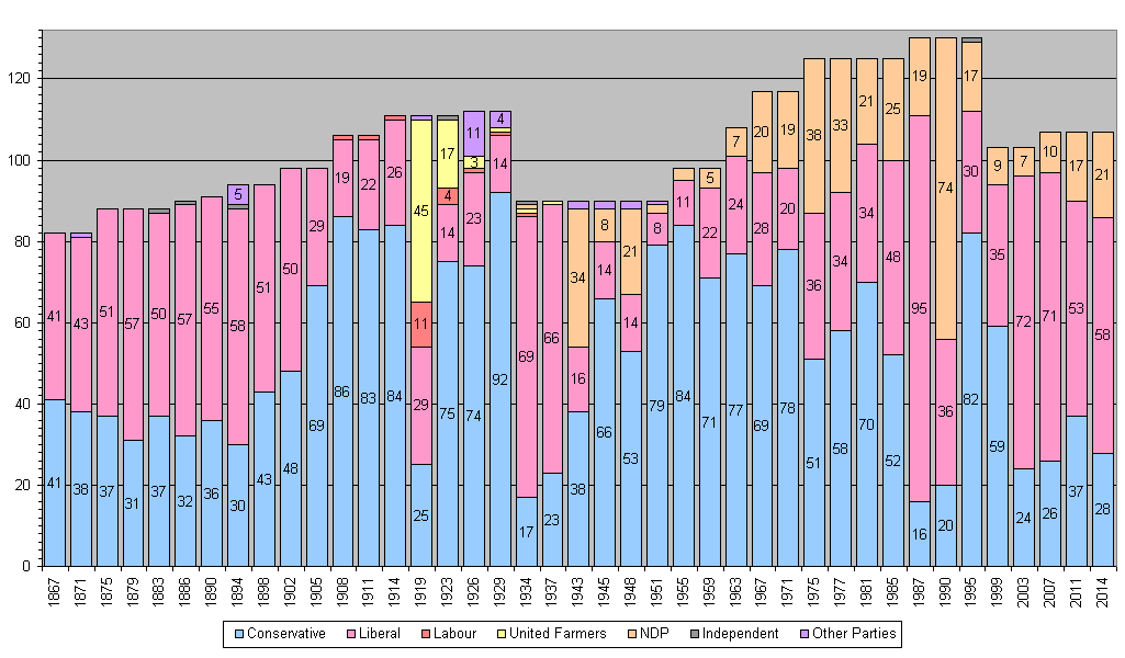 Image created by me from a graph produced in MS Excel, using data from List of Ontario general elections - Tompw Value on bar is number of seats won; this is not displayed for one or two seats "Conservative" includes all results for Progressive Conservatives (from 1943), Conservative–Equal Rights, Conservative-Patron, Conservative–P.P.A., Liberal-Conservative and Conservative Independent. "Liberal" includes all results for Liberal-P.P.A., Liberal-Patron, Liberal-Equal Rights, Liberal-Temperance, Liberal-United Farmers and Liberal Independent "Labour" includes all results for Labour-United Farmers "NDP" includes all results for Co-operative Commonwealth Federation (CCF) prior to 1961. In 1985, although they had fewer seats than the Conservatives, the Liberals formed a minority government with the support of the NDP